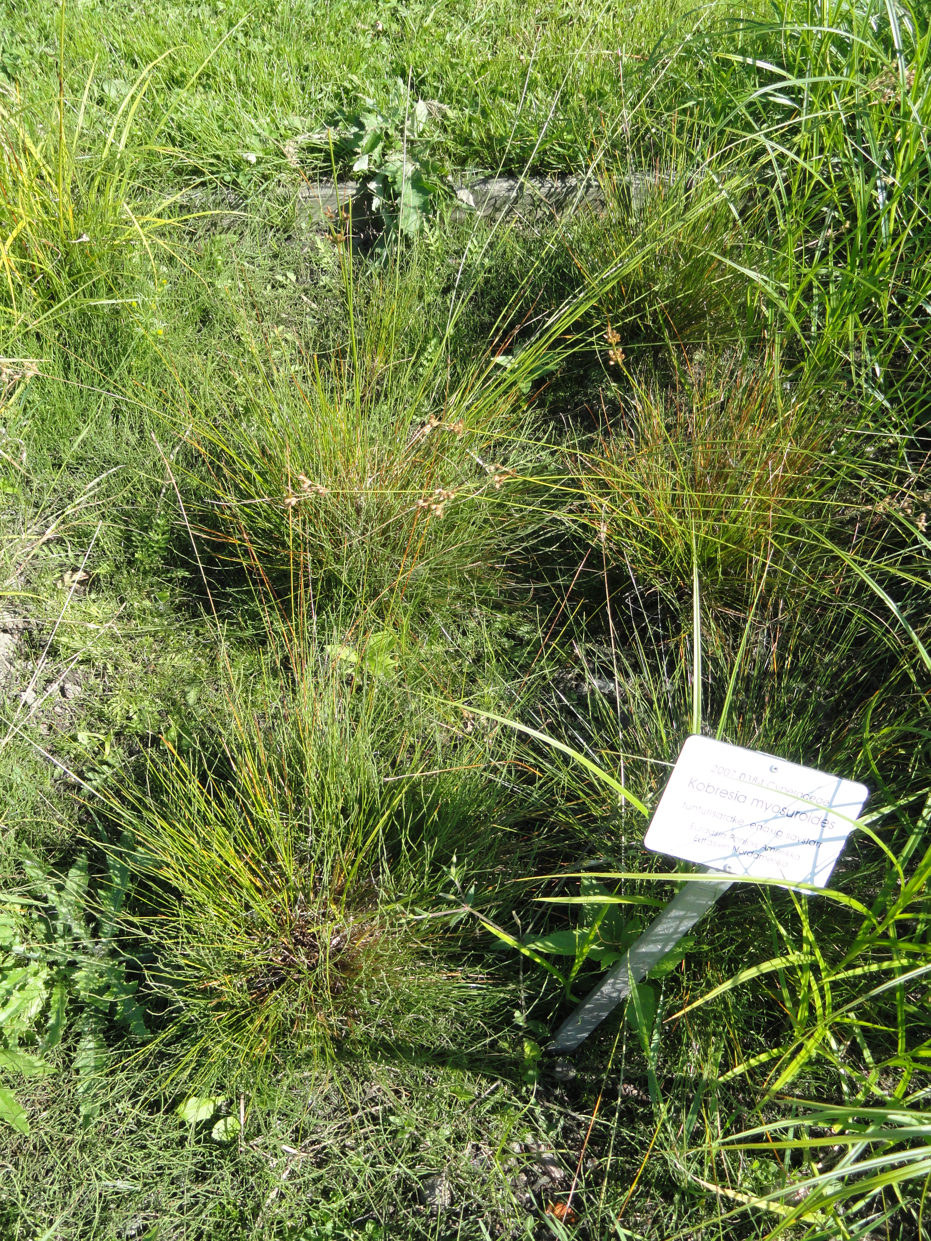 Botanical specimen. The University of Helsinki Botanical Garden at Kaisaniemi